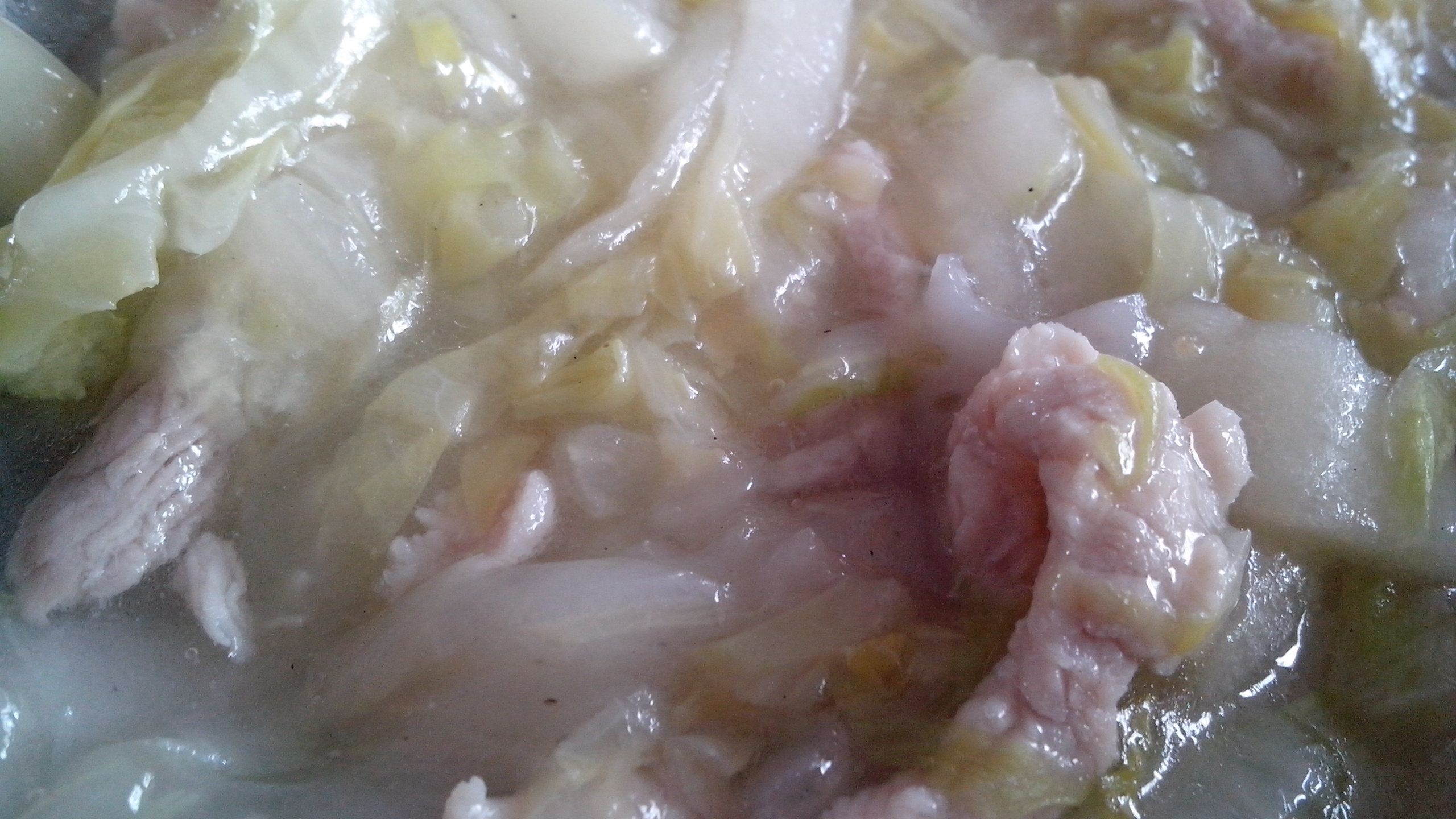 Fried shredded meat with shanghai style